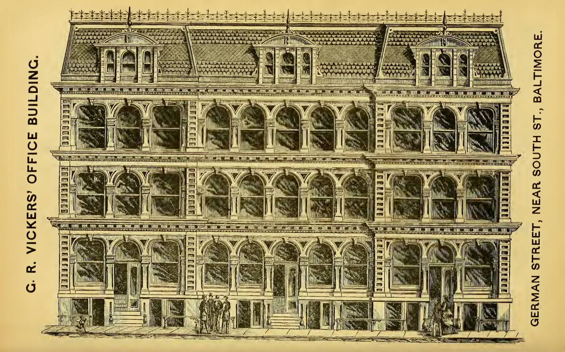 'Old' G. R. Vickers Building - Baltimore - constructed 1854, from The Monumental city, its past history and present resources by Howard, George W., published 1874